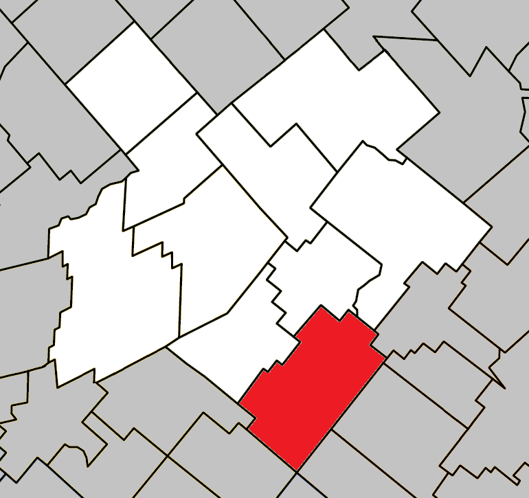 Location of Saint-Ferdinand, Quebec within L'Érable Regional County Municipality.